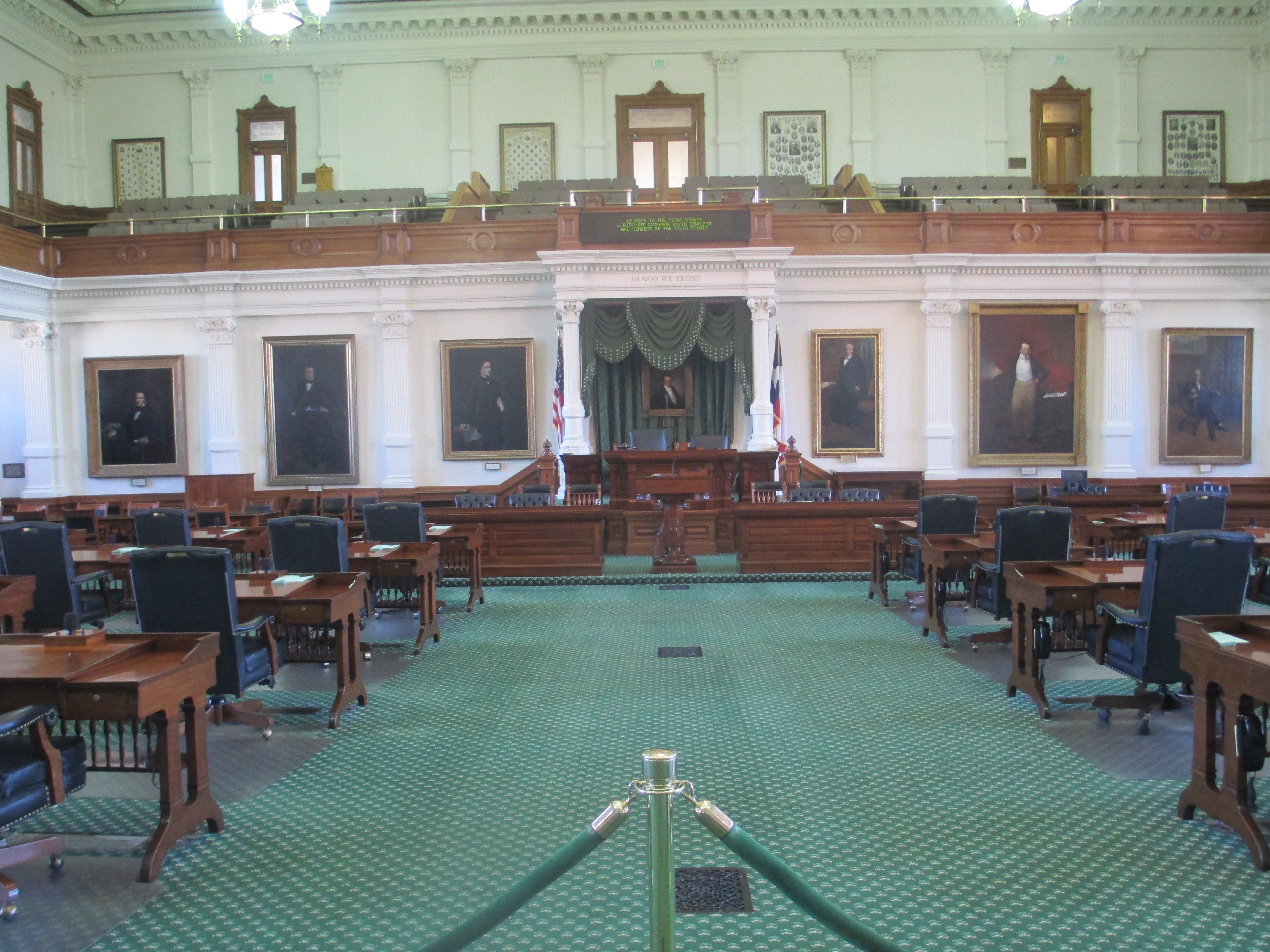 Texas State Senate chamber, Austin, TX